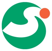 Sakai Fukui chapter